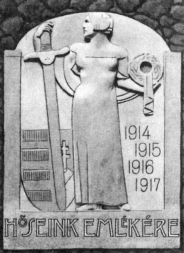 The original embossment of Hunnia (memorial of the fallen soldiers in the WWI) on the Castle Rock in Trenčín, Slovakia, from Mihály Kara, made in 1915-1917, destroyed in 1920 by czech soldiers.